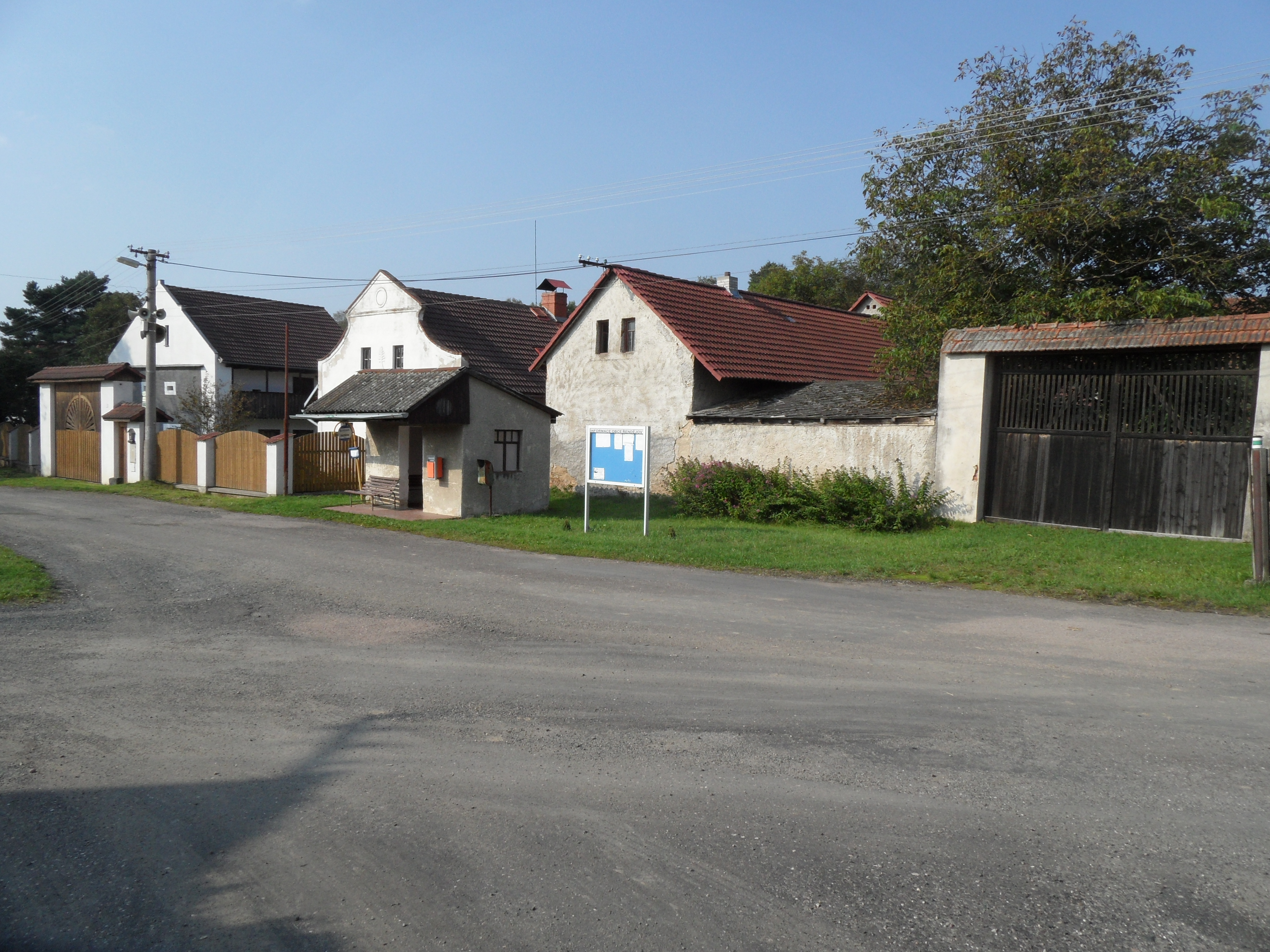 Řendějov F. Houses near Crossroads, Kutná Hora District, the Czech Republic.